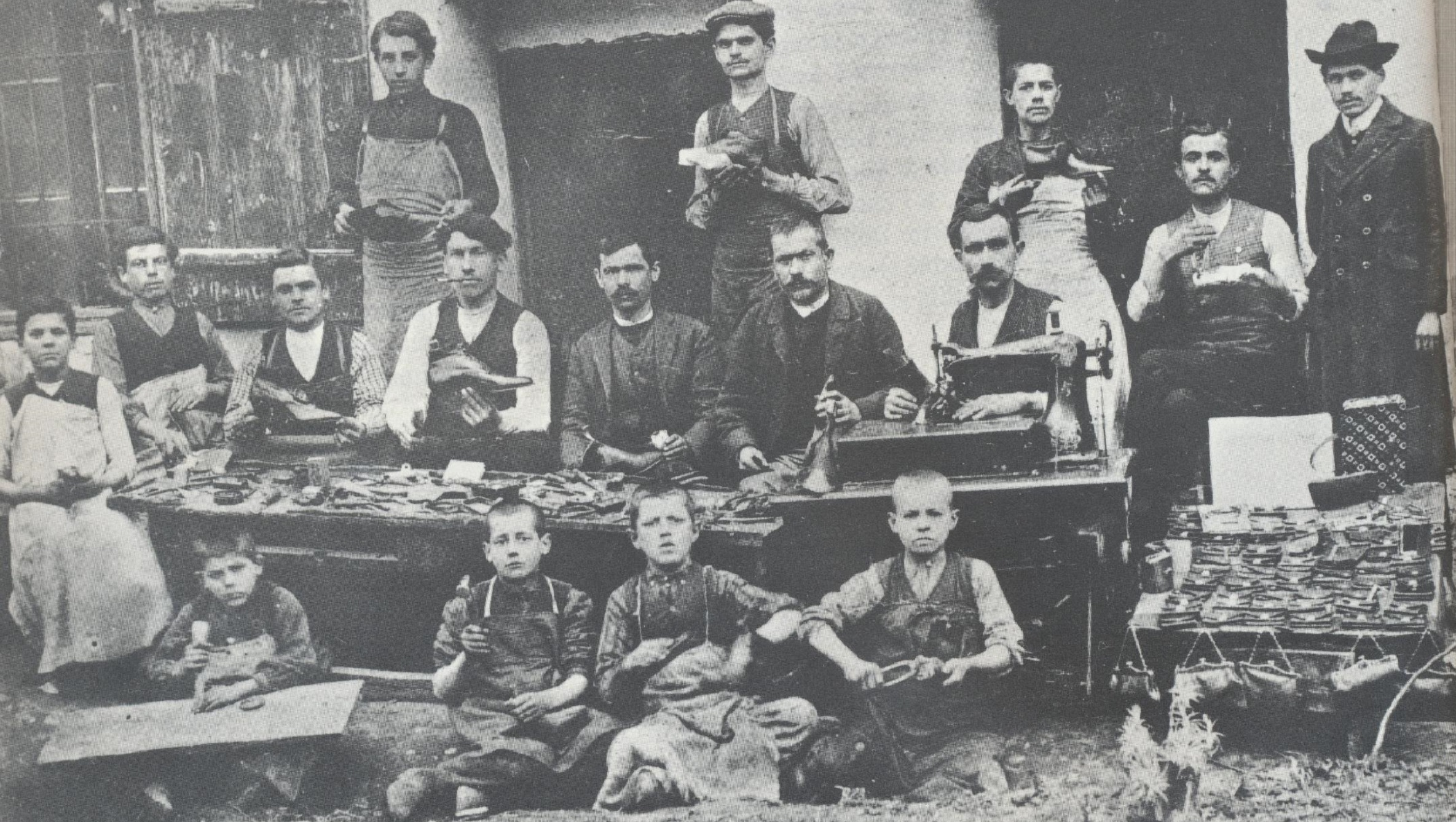 Group of young craftsmen in Tigar Pirot